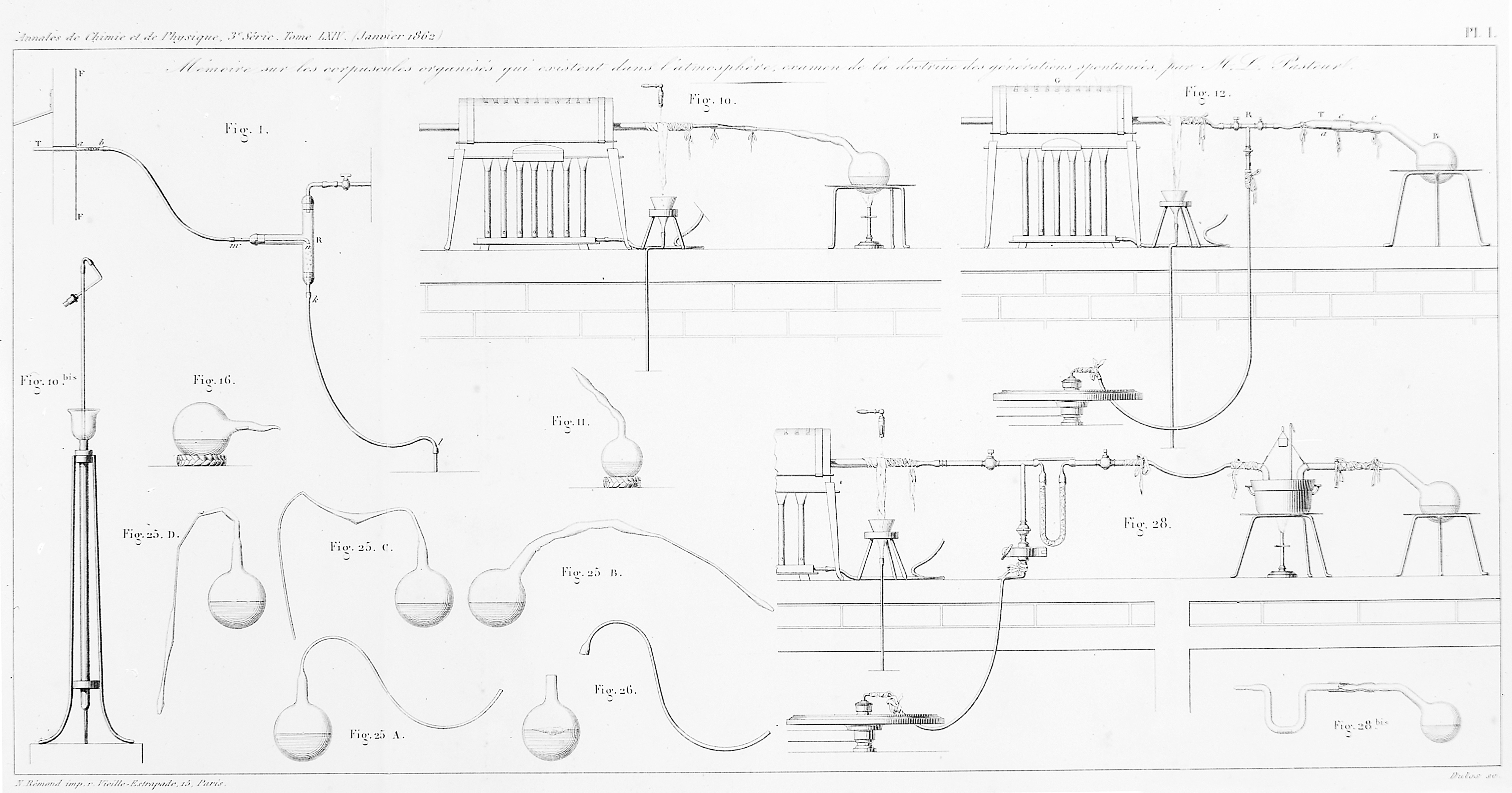 Apparatus used by Pasteur in experiments on alleged spontaneous generation. General Collections Keywords: Louis Pasteur